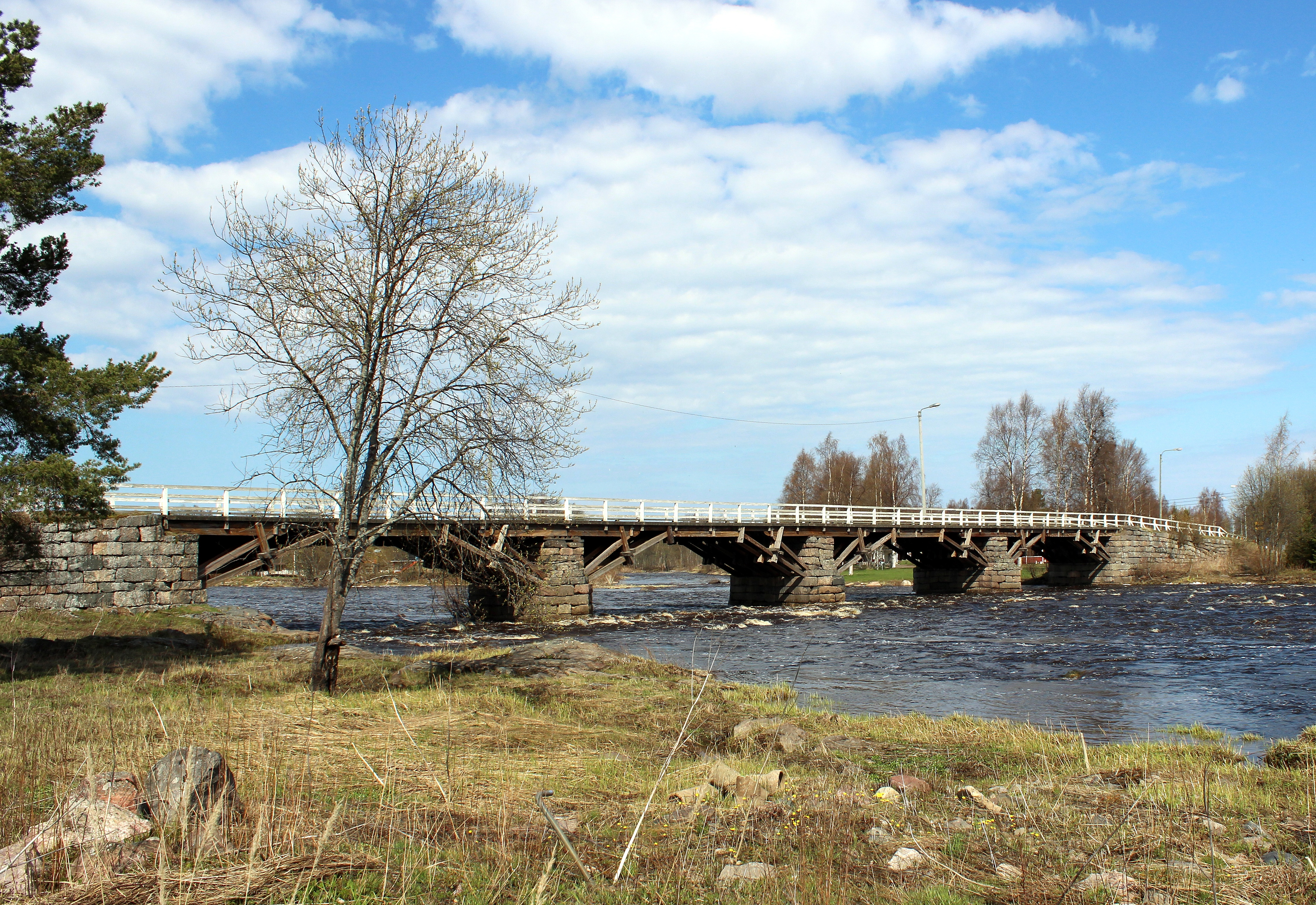 Etelänkylän isosilta bridge over the Pyhäjoki river in the municipality of Pyhäjoki in Finland.